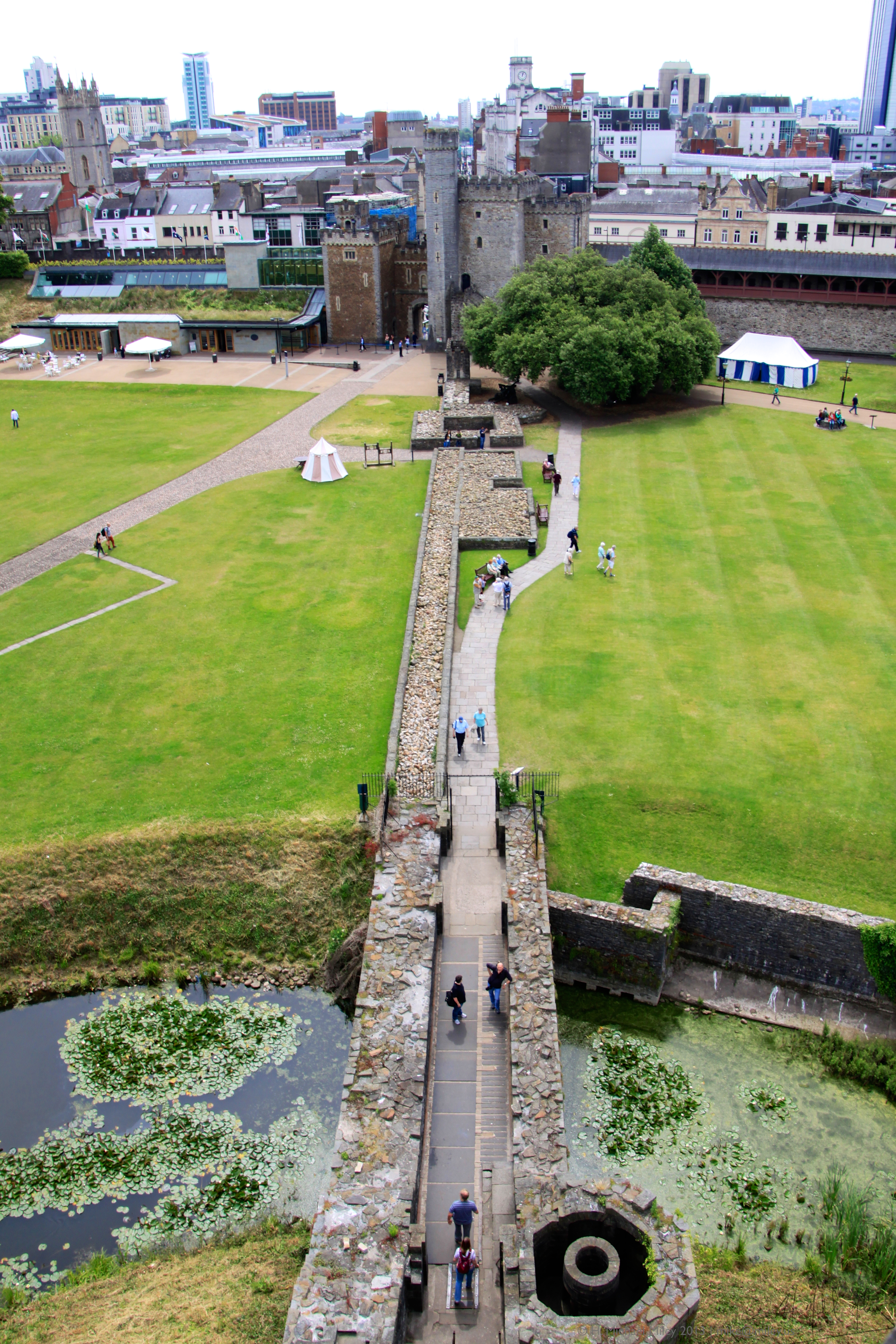 European Vacation